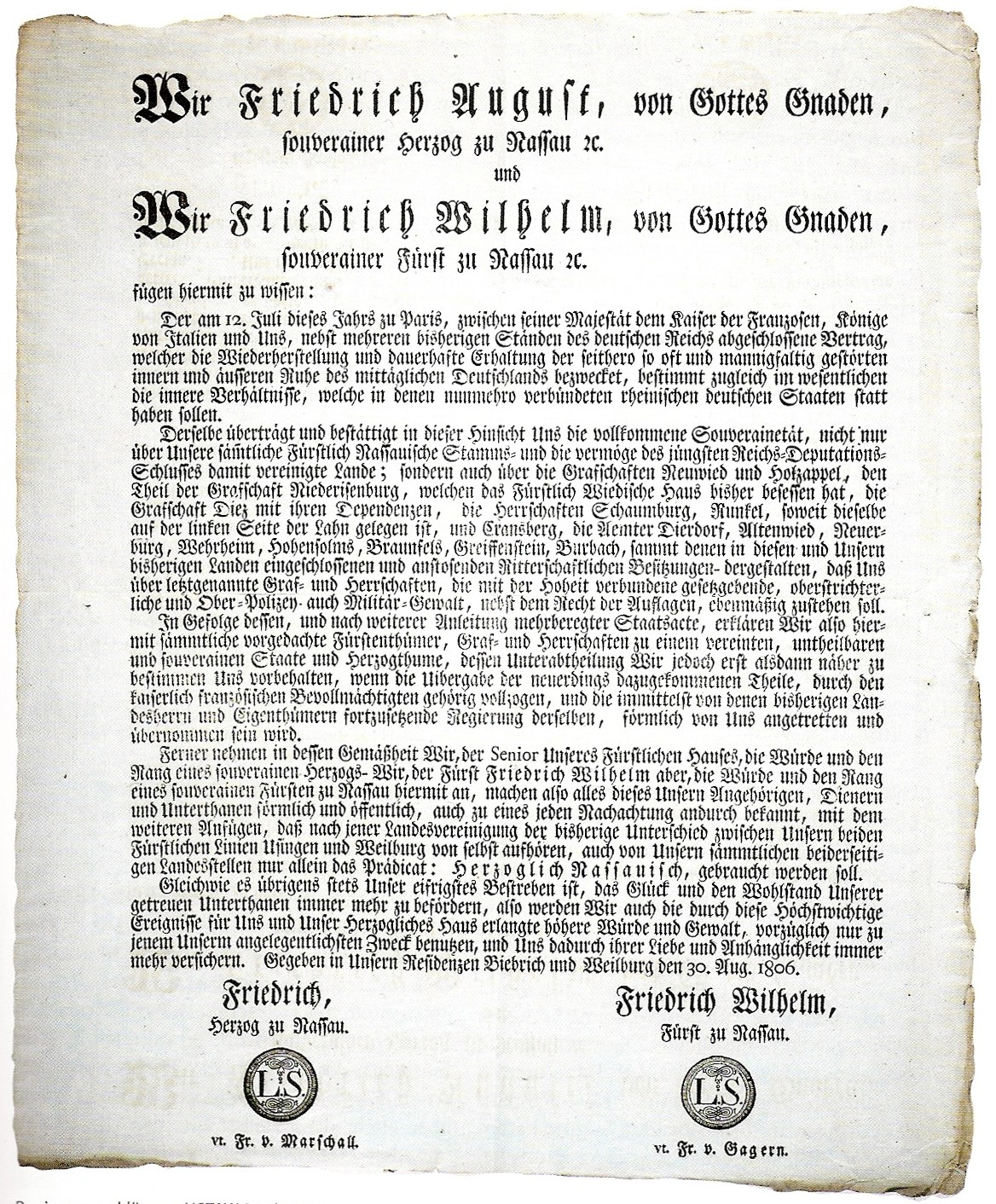 Declarition of errection of the Herzogtum Nassau 1806-08-30